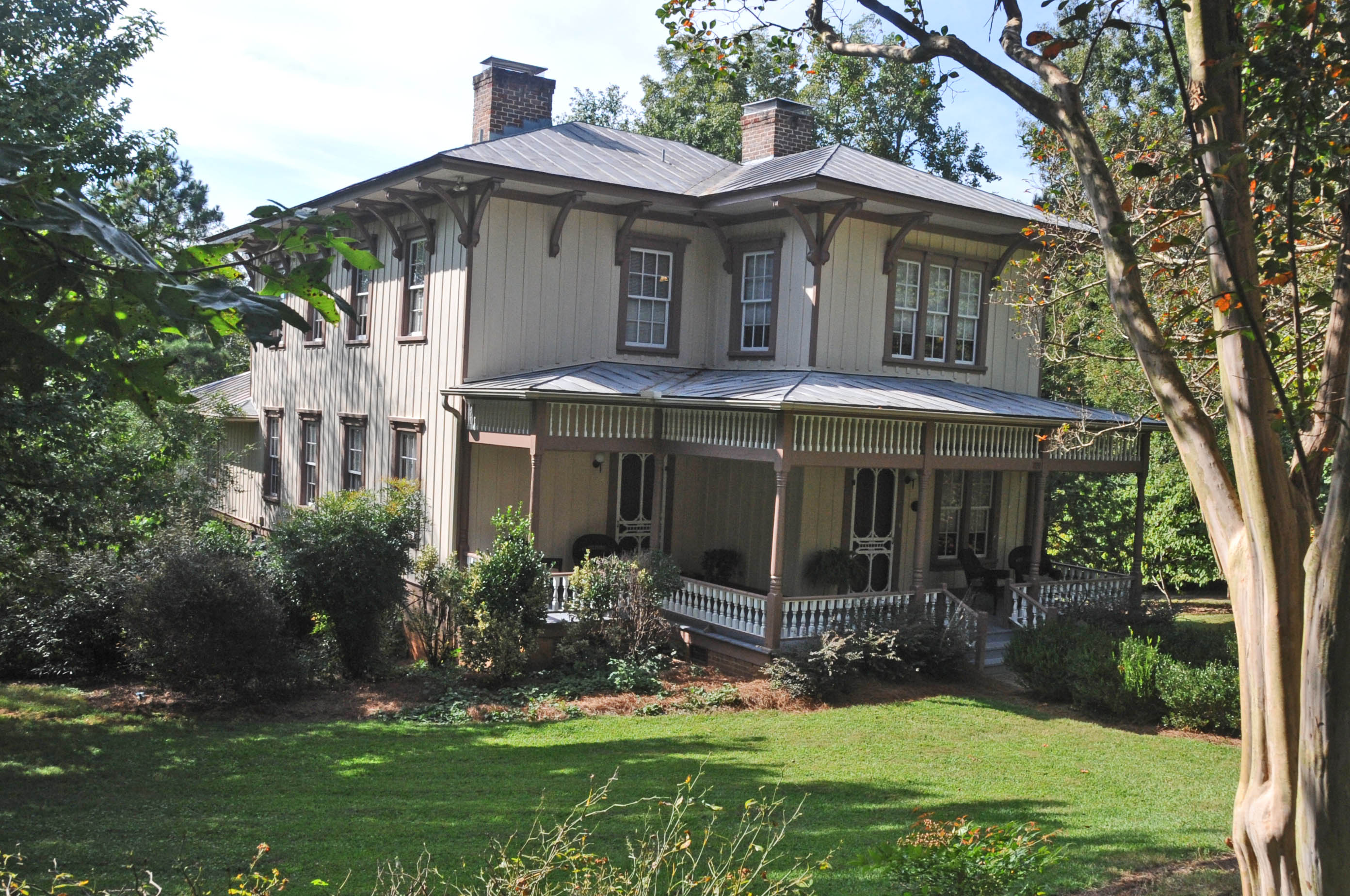 ERECTED IN 1853 AND MOVED FROM ITS ORIGINAL SITE AT THE CENTER OF MT. PLEASANT IN 1980, IS THE OLDEST COMMERCIAL BUILDING STILL EXISTING IN CABARRUS COUNTY. THE LENTZ FAMILY OPERATED THE HOTEL FOR OVER SIXTY YEARS. HE LENTZ HOTEL WAS THE SOCIAL CENTER OF MT. PLEASANT DURING THE LAST QUARTER OF THE NINETEENTH CENTURY AND THE FIRST PART OF THE TWENTIETH CENTURY.